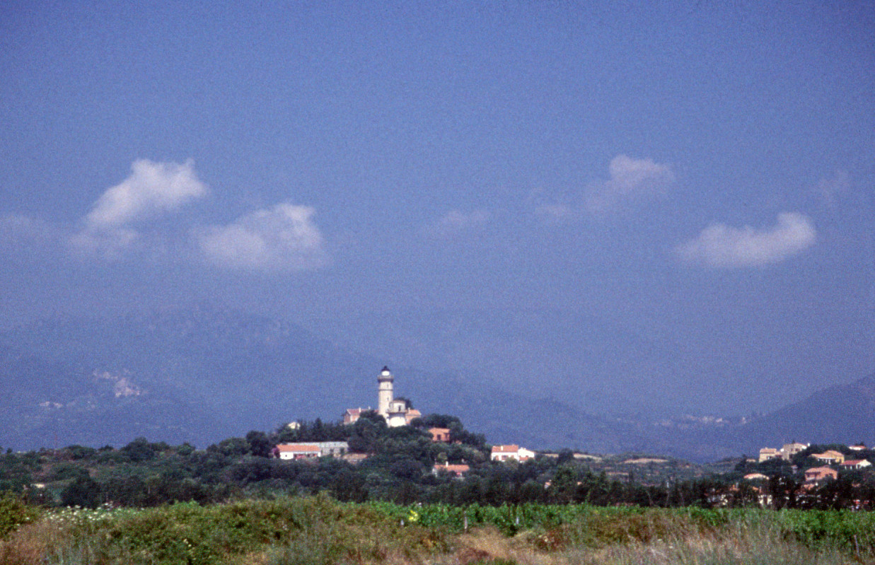 lighthouse of Alistro, Corse, France